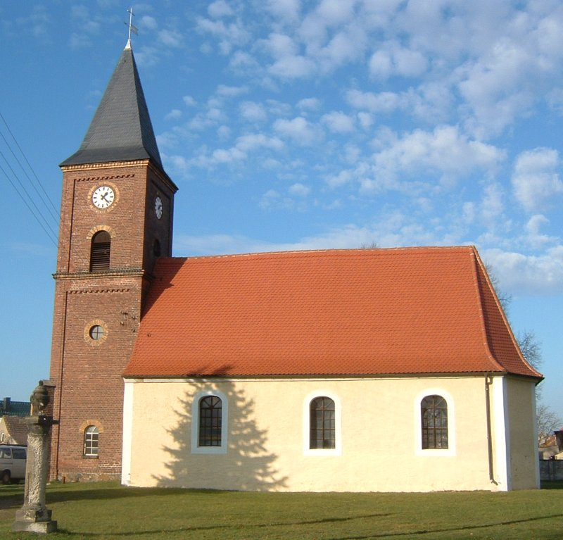 The church of Laußig